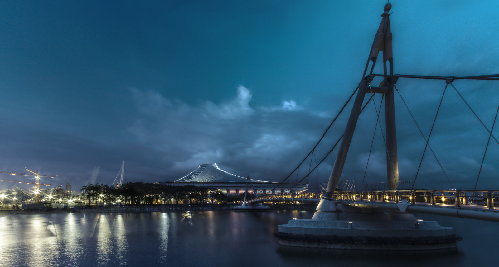 ... from across the bridge, the orcs prepare for war